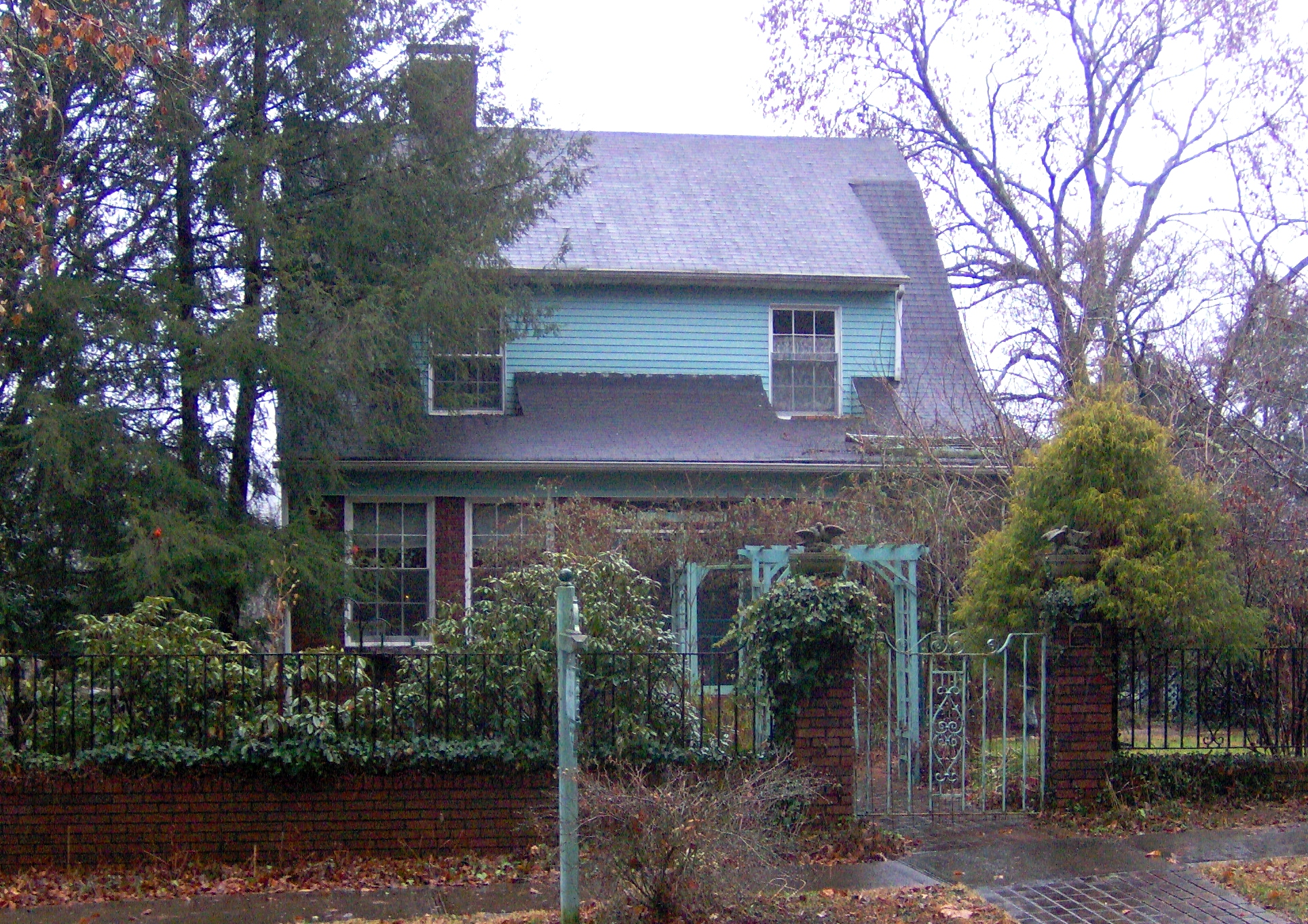 Waterhouse-Nickle House, built in 1924, along Cumberland Avenue in the Cornstalk Heights Historic District of Harriman, Tennessee, USA.